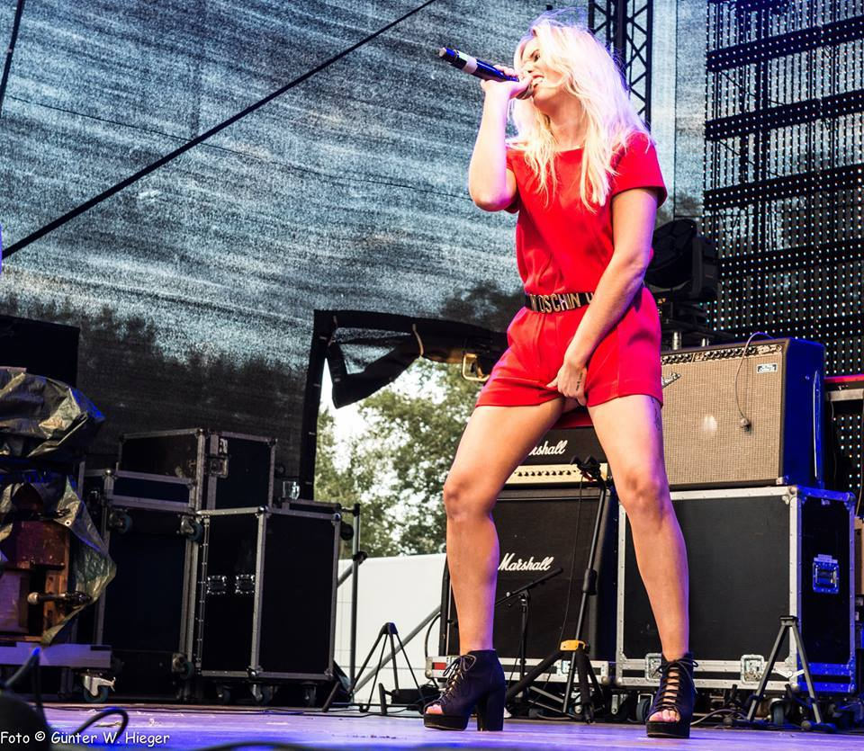 Kandut live at Hafen Open Air 2014